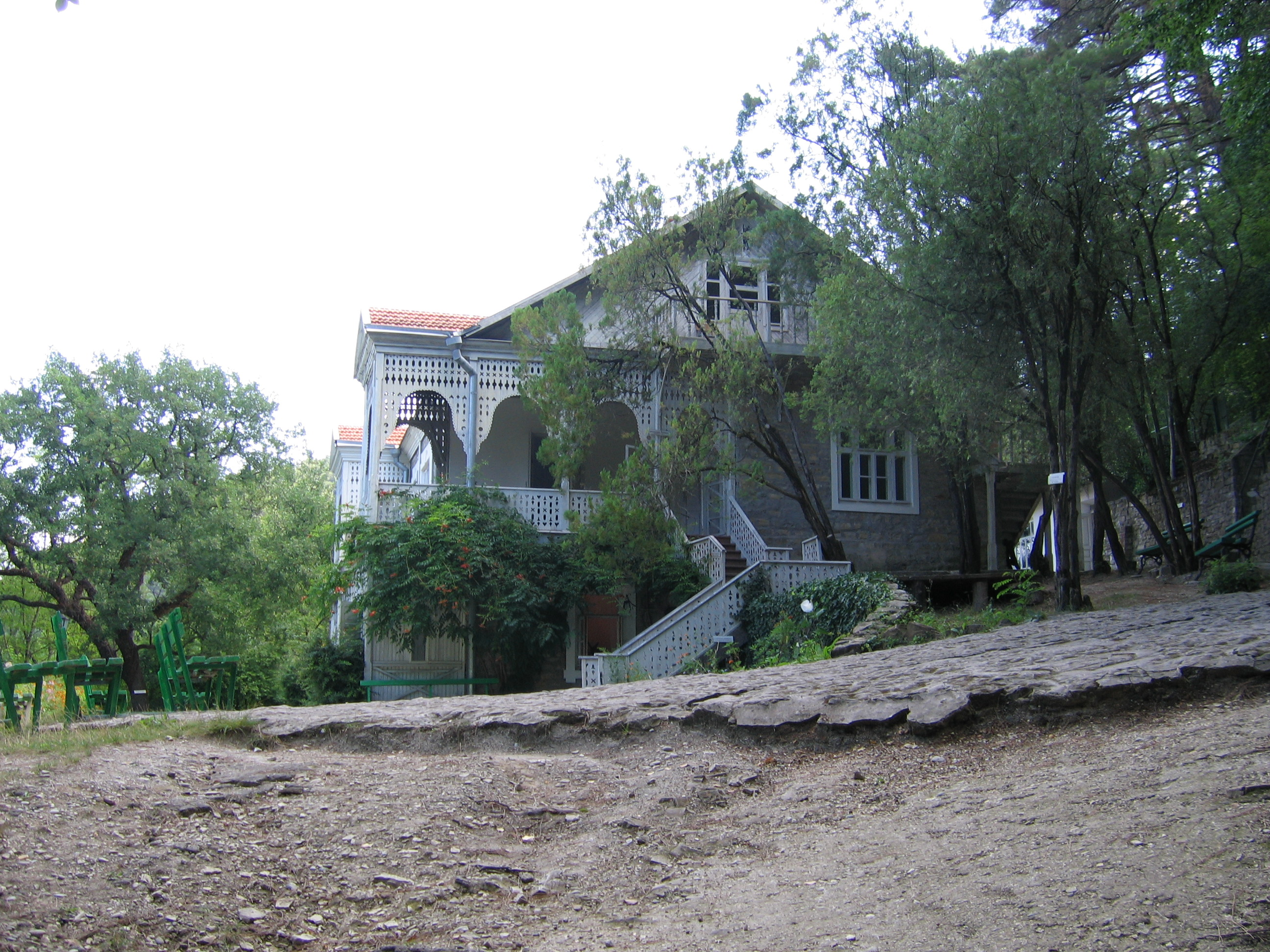 Summer house of writer Vladimir G. Korolenko in Dzhankhot, Krasnodar Krai, Russia.